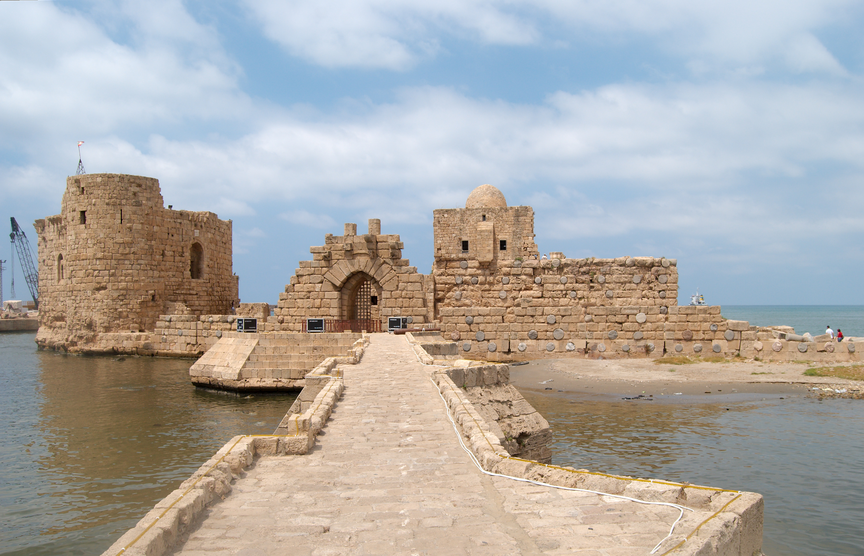 The Sea castle in Sidon, Lebanon